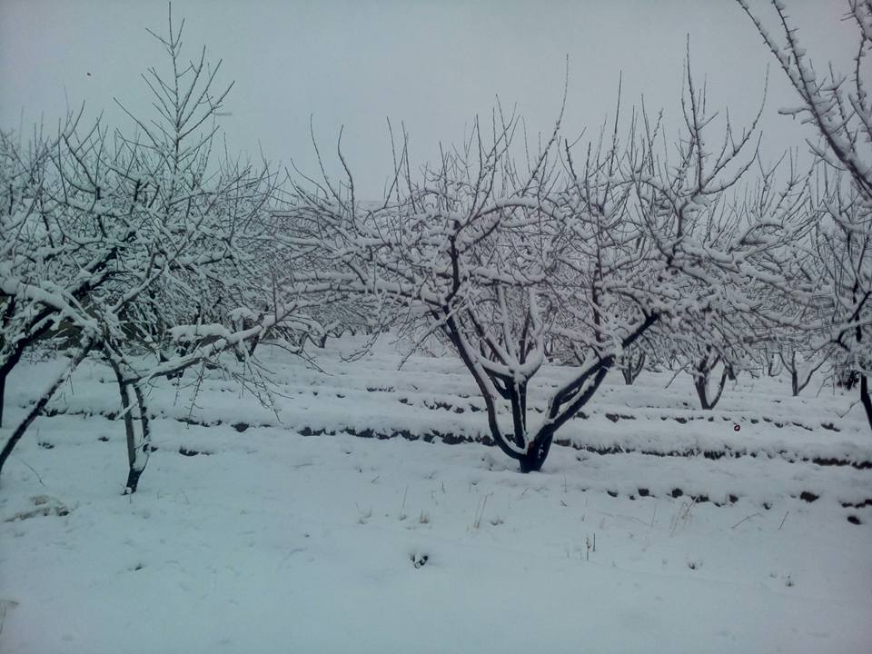 View of orchard in winter